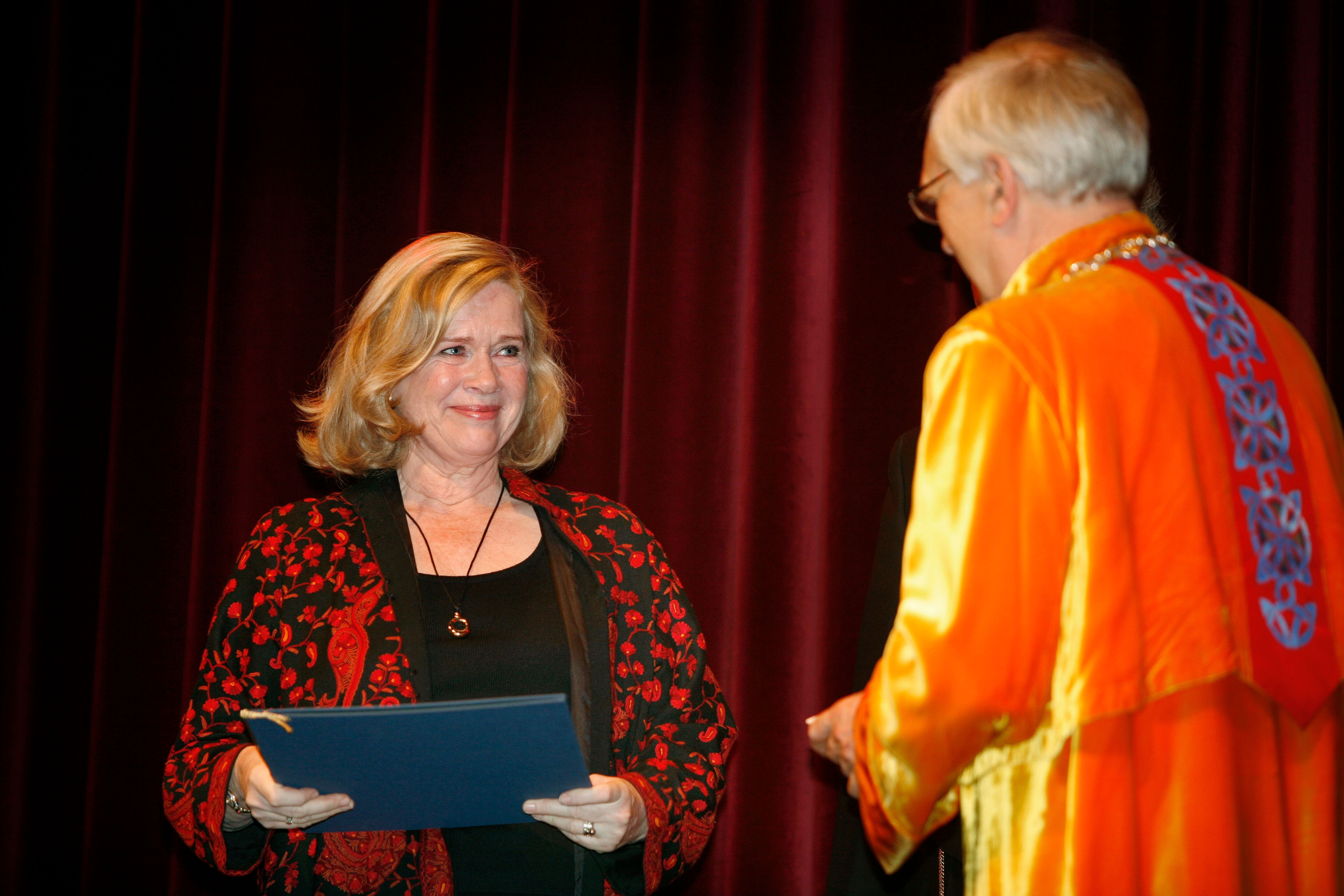 Liv Ullmann was awarded an honorary doctorate at The Norwegian University of Science and Technology (NTNU) in 2006. The photo shows her receiving her diploma from rector Torbjørn Digernes. Place: Storsalen, Studentersamfundet, Trondheim